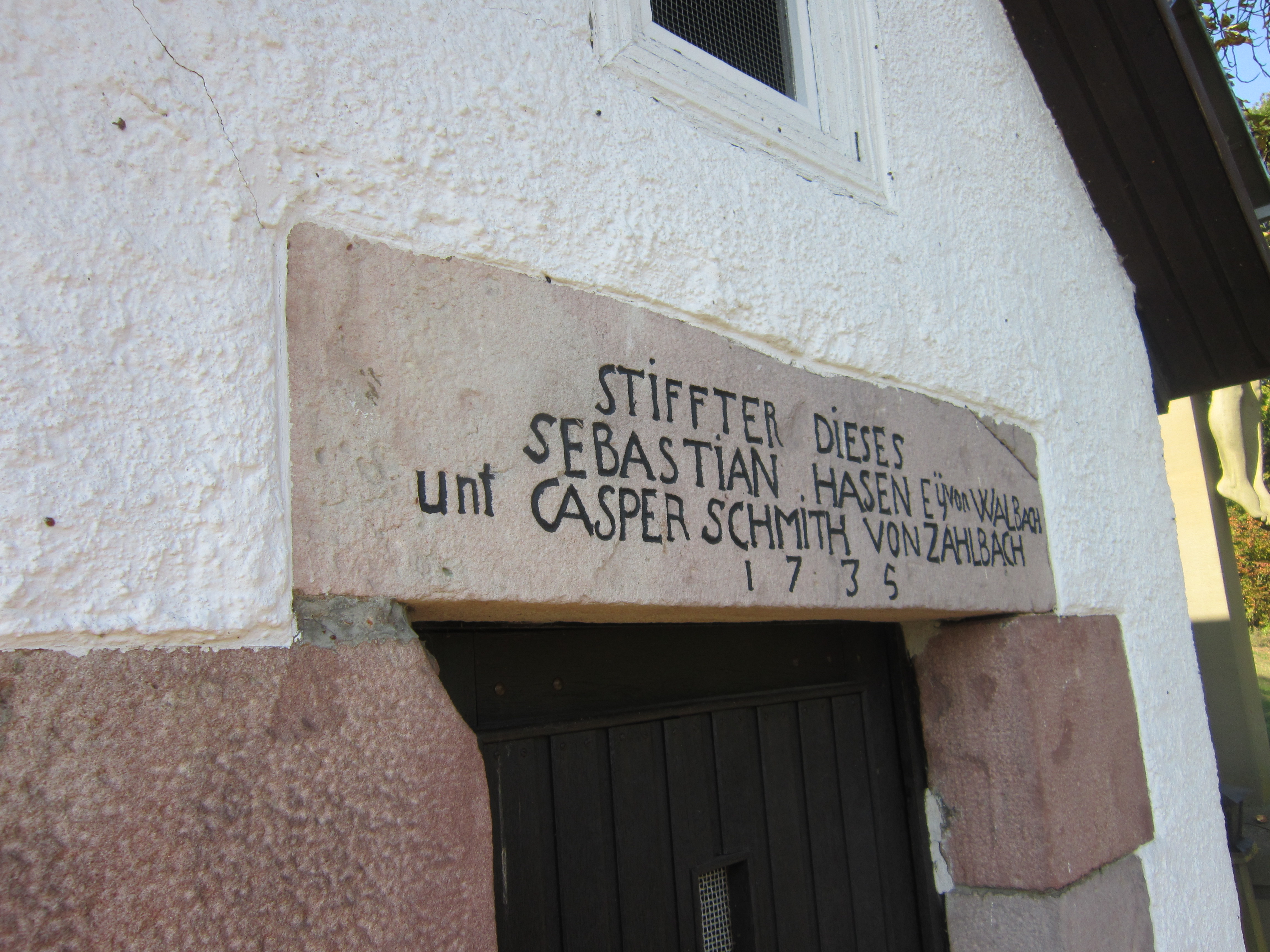 Inscription at the "Kreuzkapelle" in Zahlbach, a quarter of the German town of Burkardroth in Lower Franconia (Bavaria).